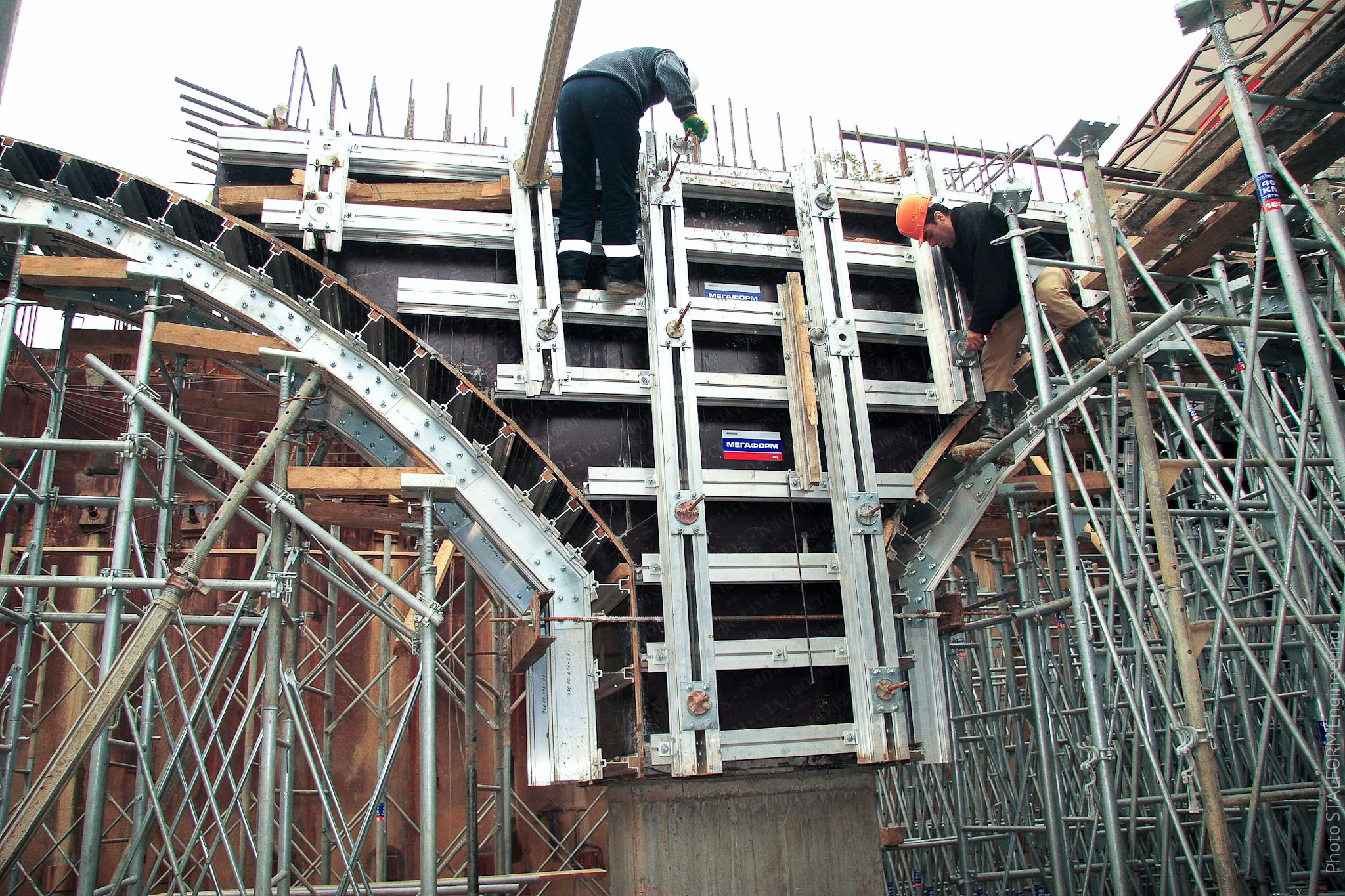 The photo was made on October 31, 2008 during the construction of the Volokolamskaya metro station in Moscow by the open cut method. The process of dismantling the special panel formwork from the MEGAFORM AL aluminum beams